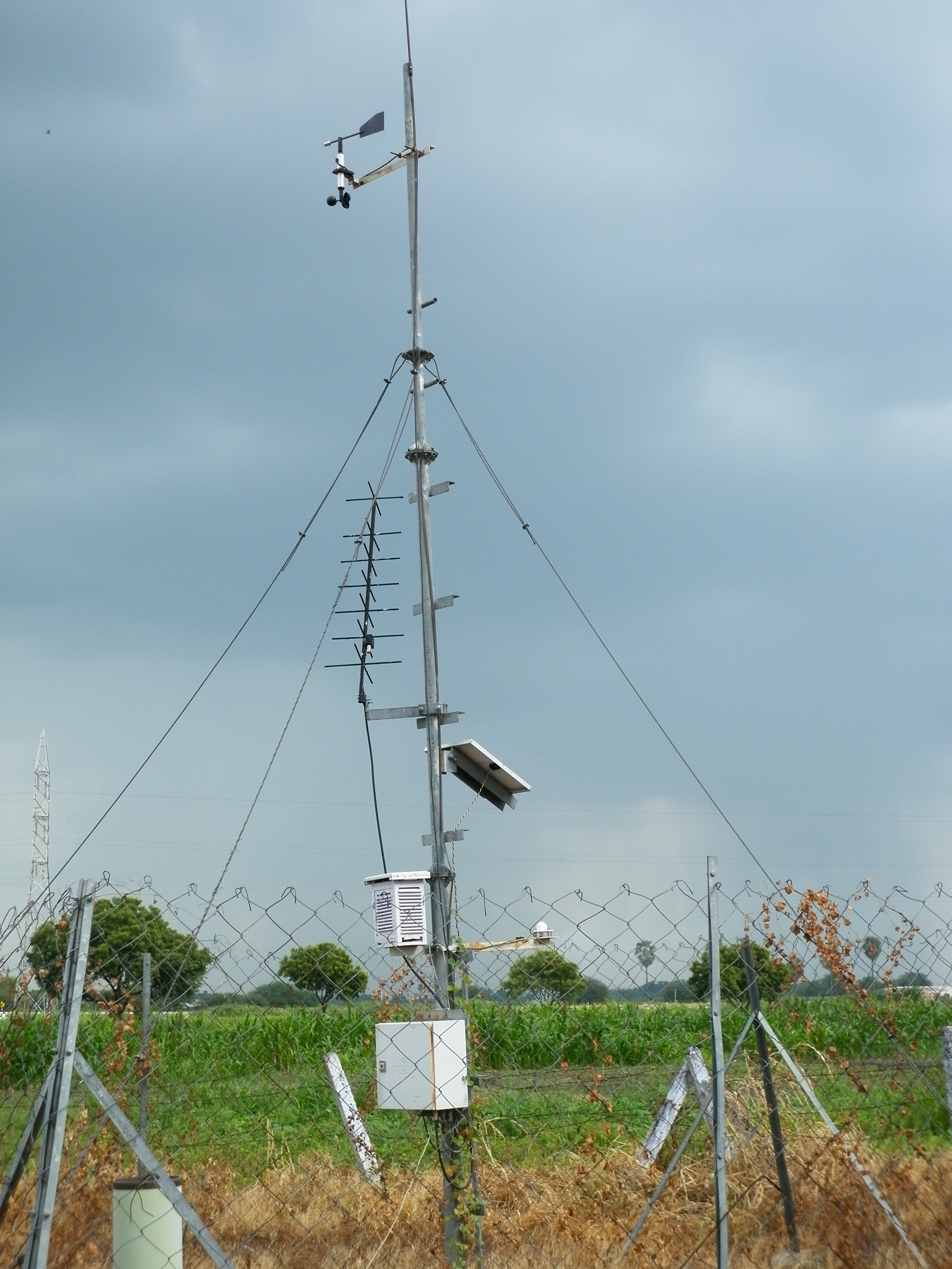 This is taken atARS Kovilpatti,Tuticorin,Tamilnadu,India